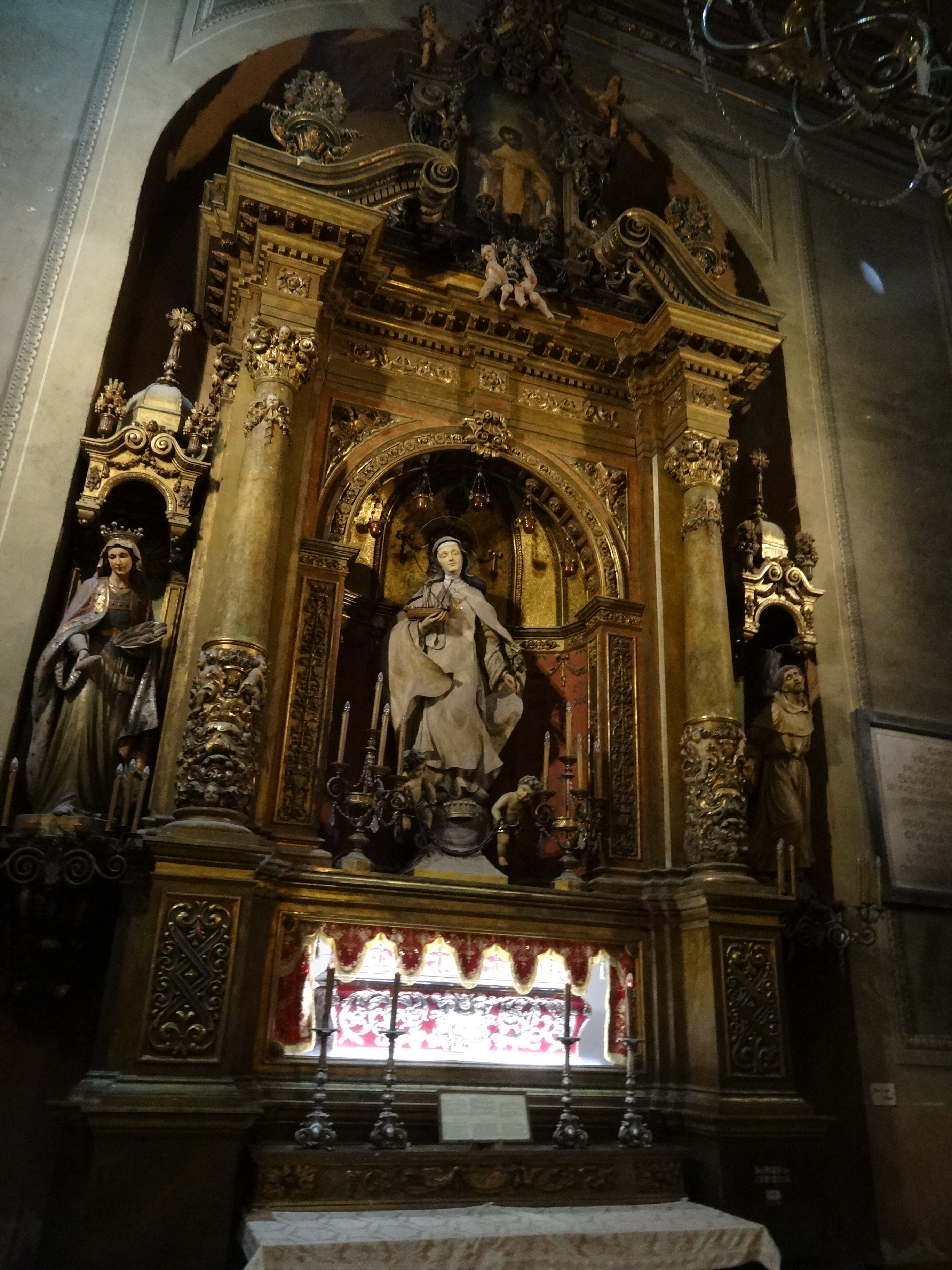 Interior of Basílica de la Mercè, Barcelona.